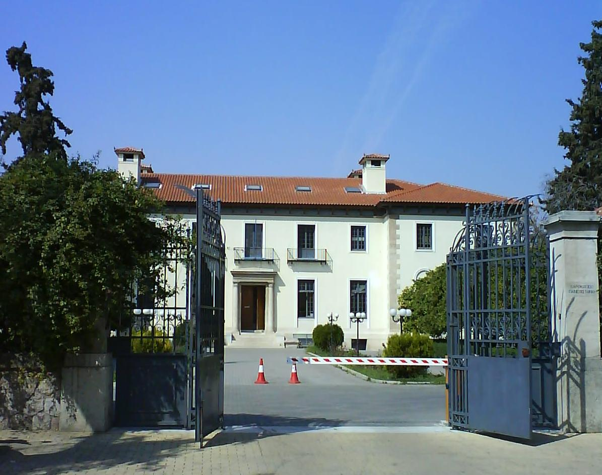 Main entrance of Harokopio University. The main building in the background.